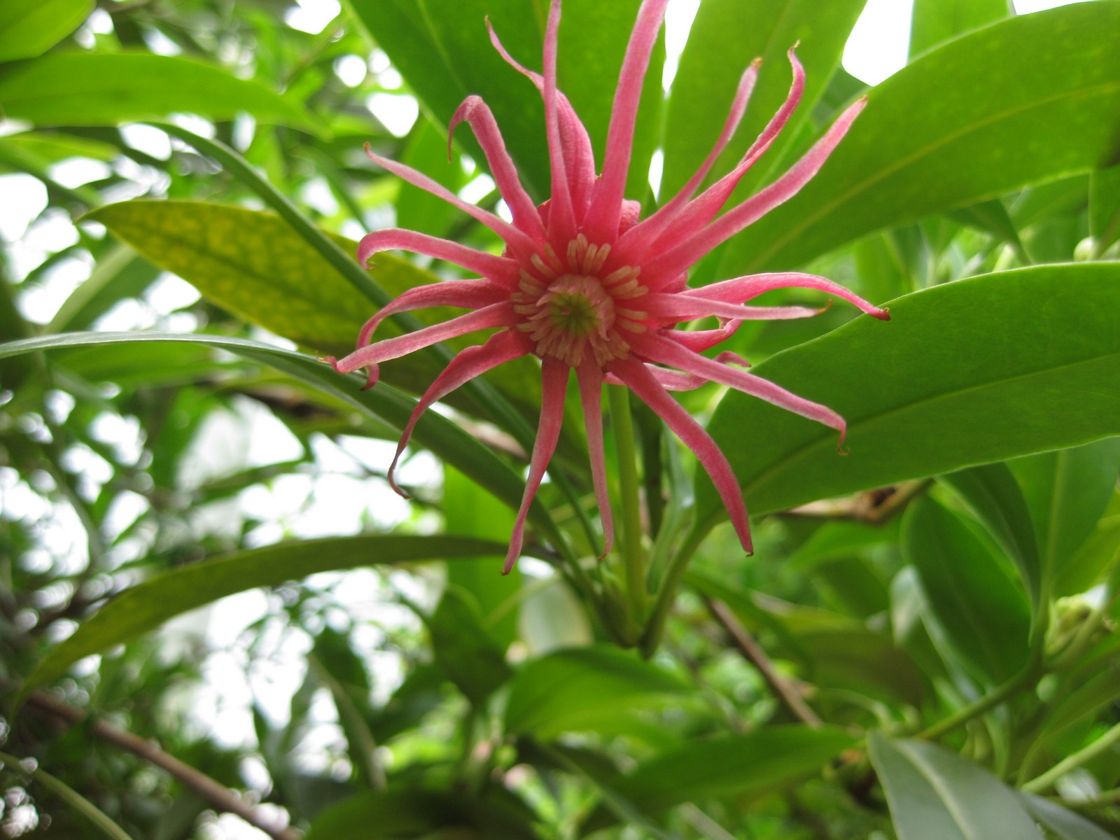 Photographed at Huntington Gardens (Los Angeles, California) in June